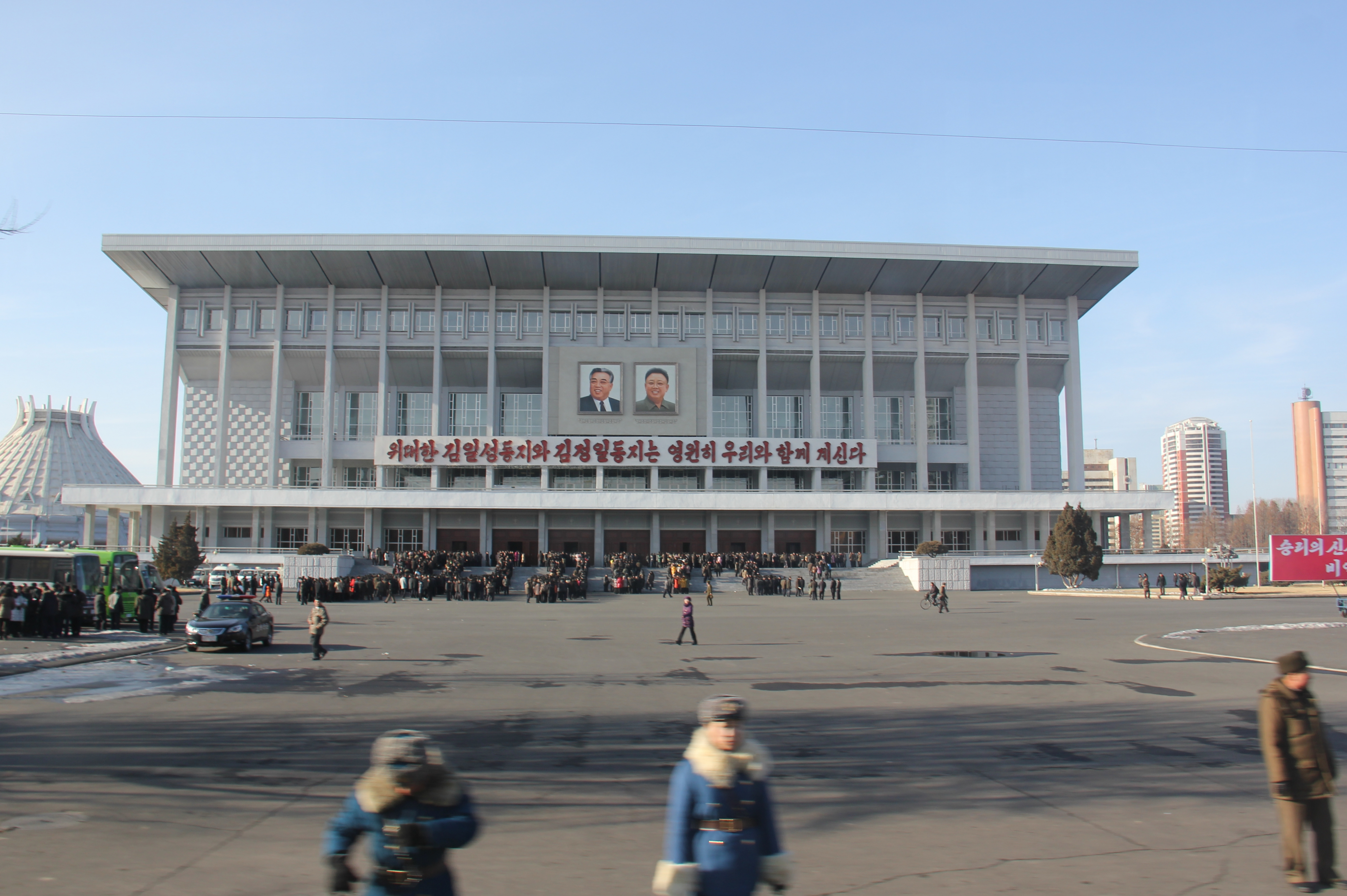 Lots of traffic cops!